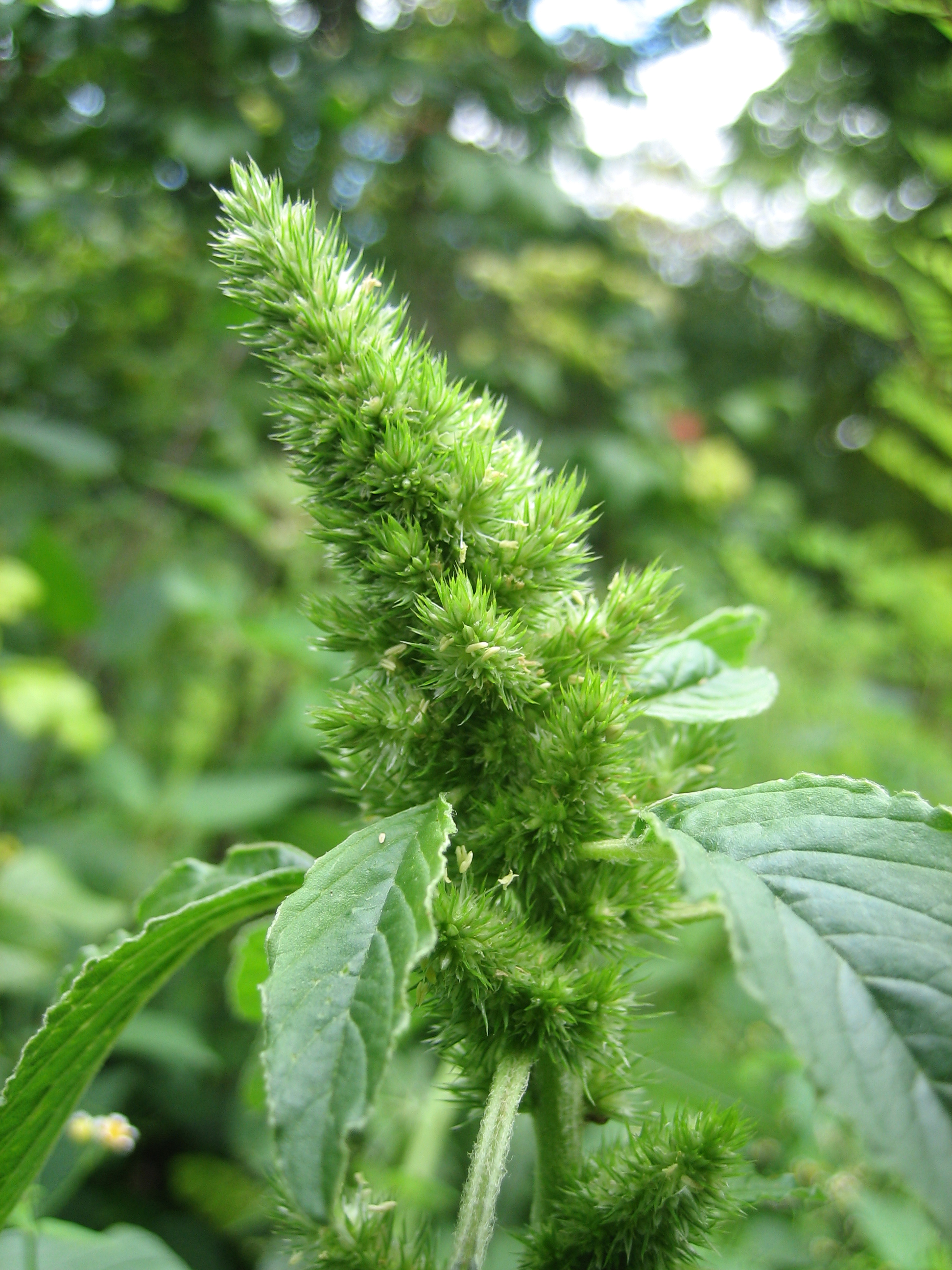 Amaranthus retroflexus (flower)